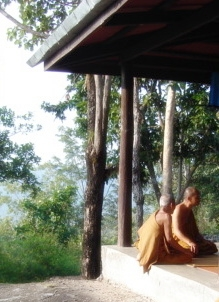 talk dharma Location: Sakhon Nakhon Thailand.